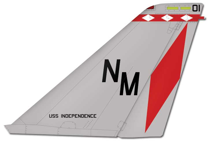 The tail of a US Navy F-14A Tomcat, belonging to VF-191, "Satan's Kittens". Original created in Adobe Photoshop by Erik Hess in 2004.